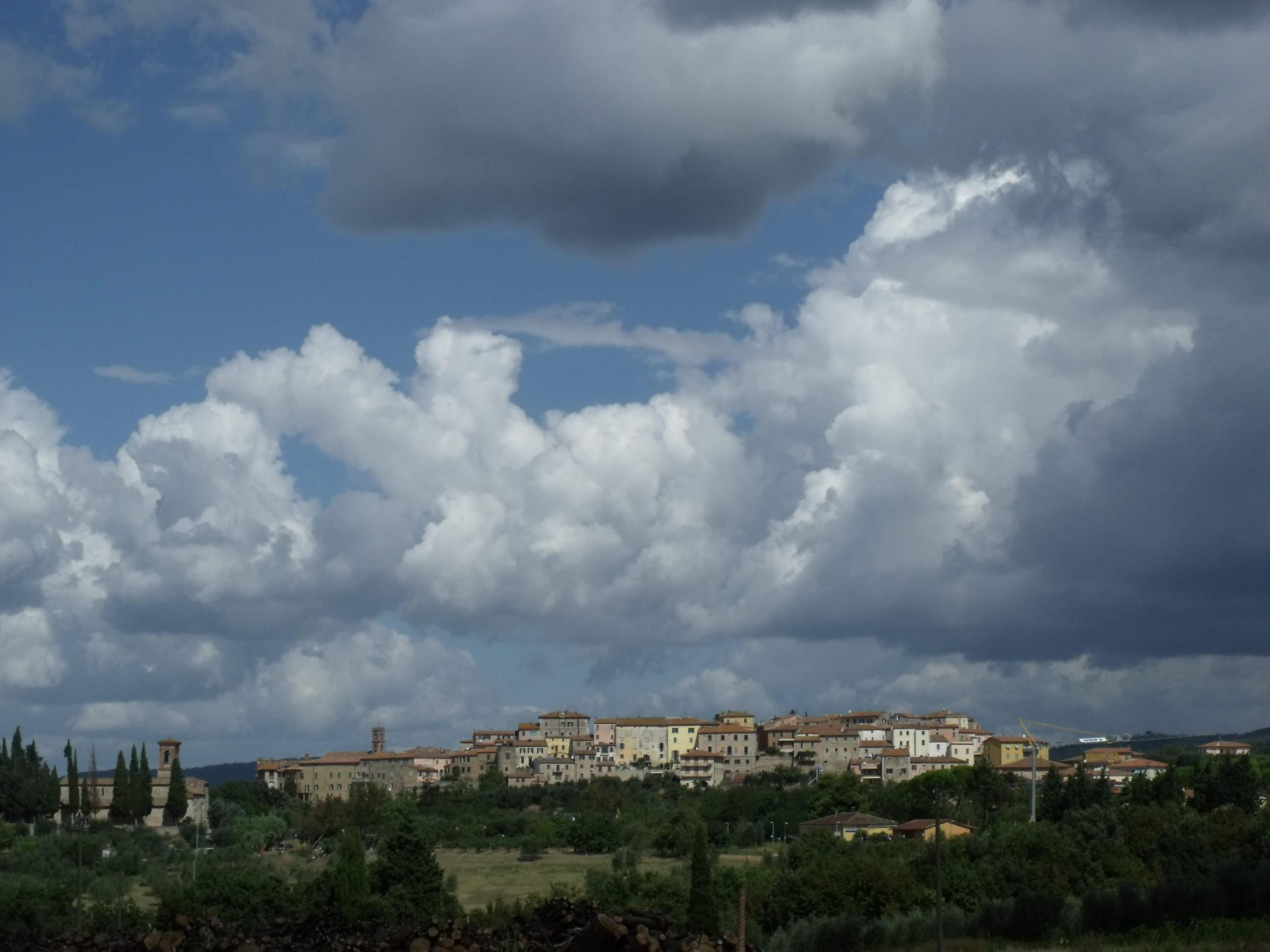 Panorama of Rapolano Terme, Crete Senesi, Province of Siena, Tuscany, Italy (left side below: Pieve San Vittore)